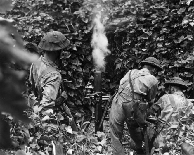 New Zealand soldiers training with a 3-inch mortar on, Mono Island, World War 1939-1945. New Zealand. Department of Internal Affairs. War History Branch :Photographs relating to World War 1914-1918, World War 1939-1945, occupation of Japan, Korean War, and Malayan Emergency. Ref: WH-0556. Alexander Turnbull Library, Wellington, New Zealand.